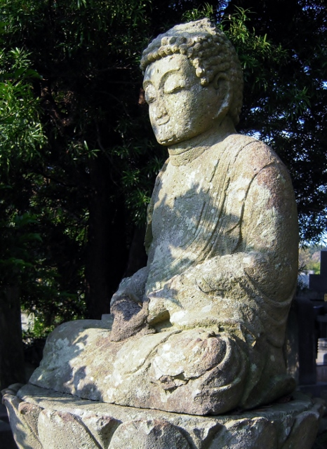 Hanakake jizo (Jizo statue with chipped-off nose) at Omine Cemetery in Kumamoto City, Japan